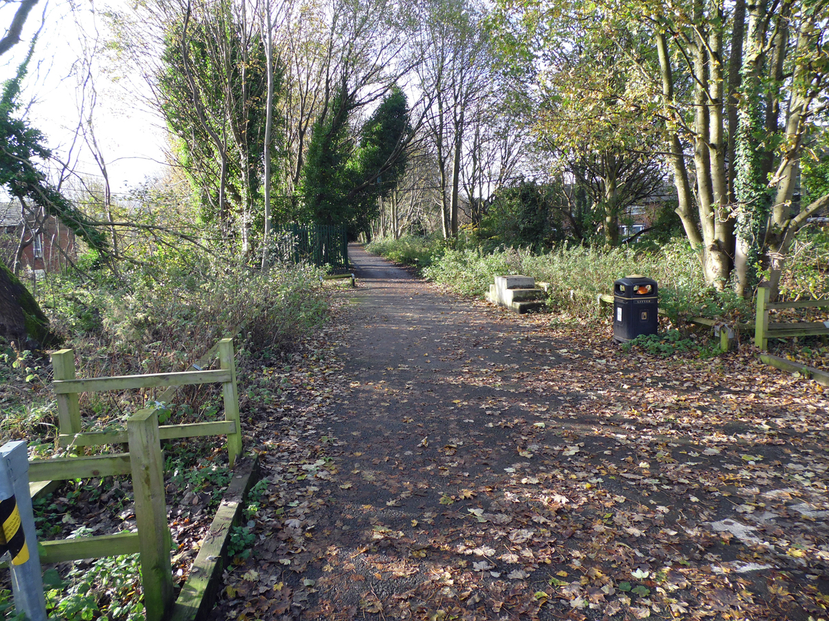 Site of Darcy Lever Railway Station in Bolton, Greater Manchester UK. Nothing of the actual station remains, only a partial wall that led off the approaching road.